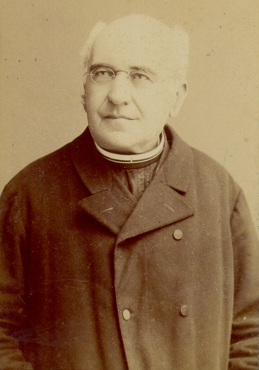 Božidar Raič (1827-1886). slovene priest, linguist and politician.